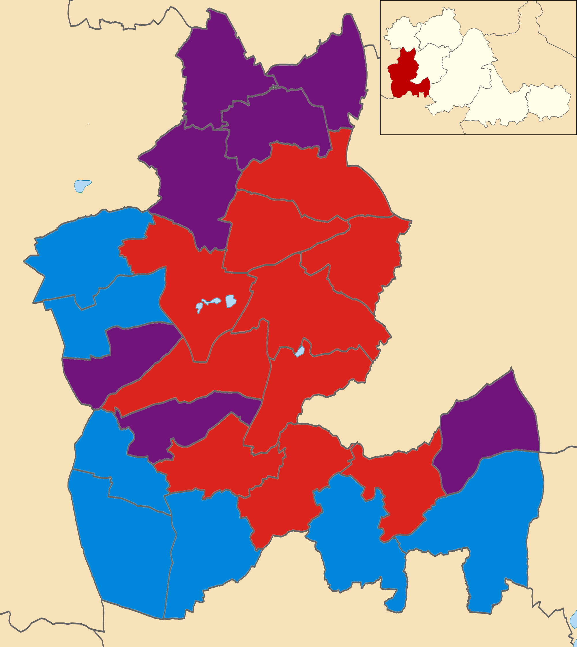 Results of the 2014 local elections in Dudley Colours: Conservative Labour UKIP